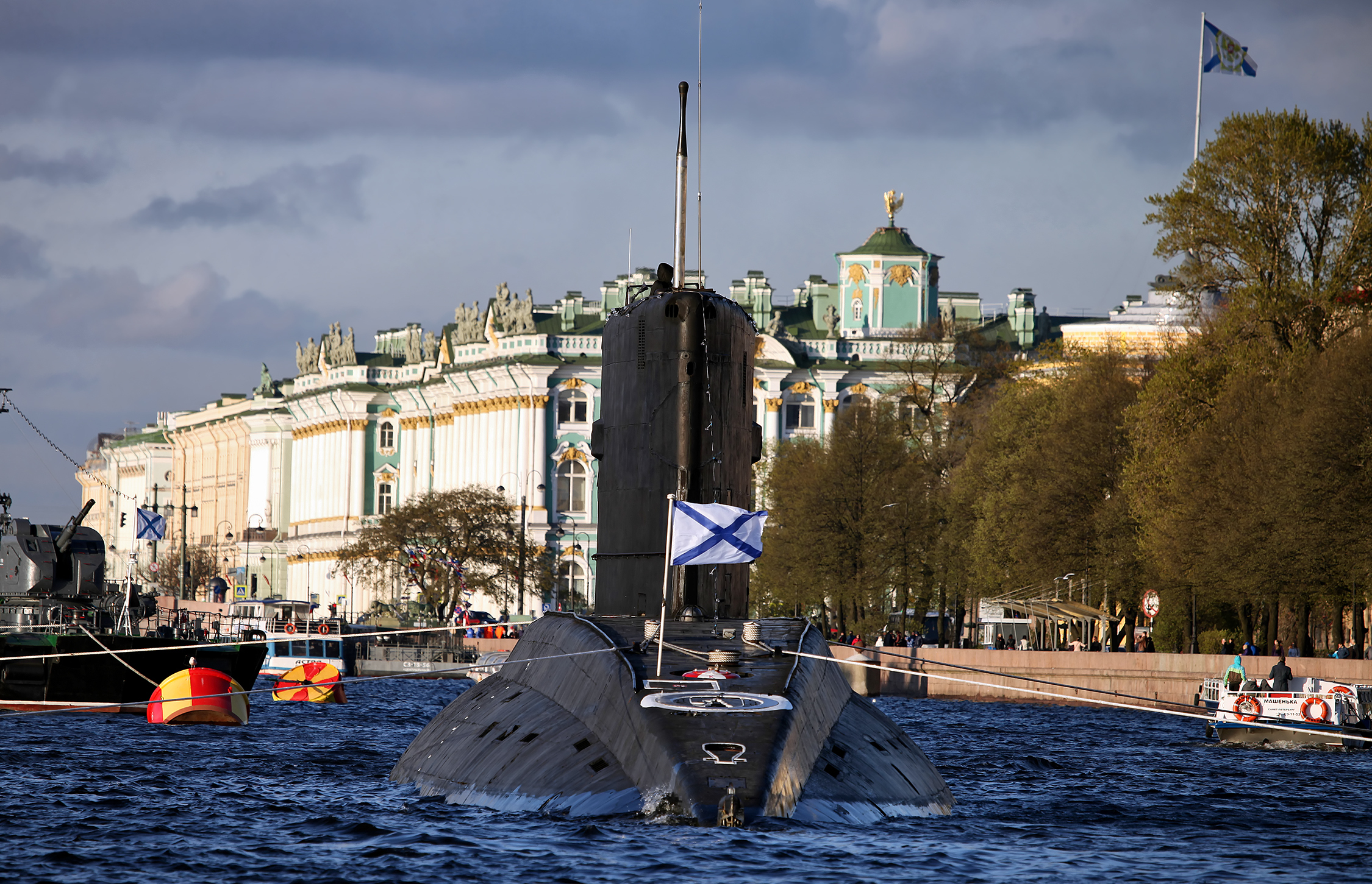 Project 877 diesel-electric submarine B-227 Vyborg